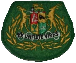 SADF era Brigade level Warrant officer class 1 insignia